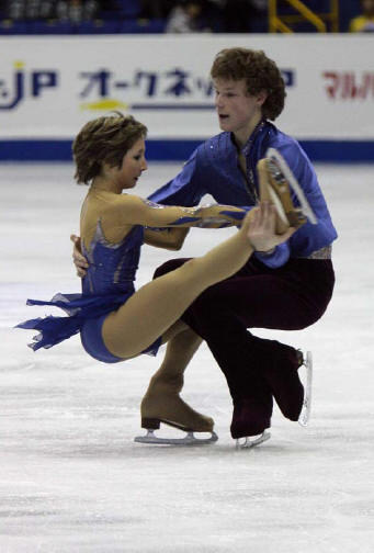 Sabina Imaikina & Andrei Novoselov (RUS) perform a pair spin during their short program at the 2008-2009 Junior Grand Prix Final. They placed 5th in this segment of the competition and 5th overall.